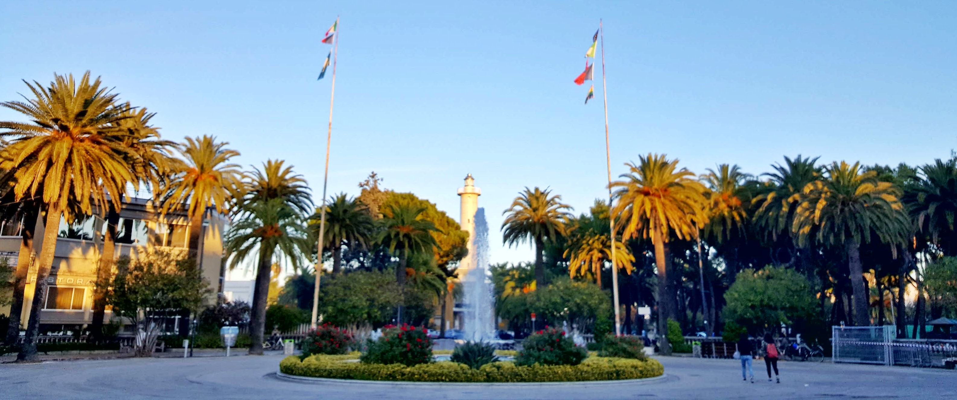 San Benedetto del Tronto the Carlo Giorgini square, Marche, Italy